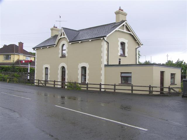 Old Station House, Victoria Bridge. Looking south-west.